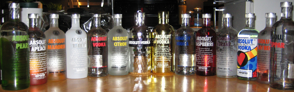 From the left to the right: Absolut Pears, Absolut Apeach, Absolut Mandrin, Absolut Vanilia, Absolut Vodka (50%), Absolut Citron, Absolut Disco, Absolut Bling-Bling, Absolut Vodka (40%), Absolut Raspberri, Absolut Kurant, Absolut Britto, Absolut Ruby Red, Absolut Peppar.